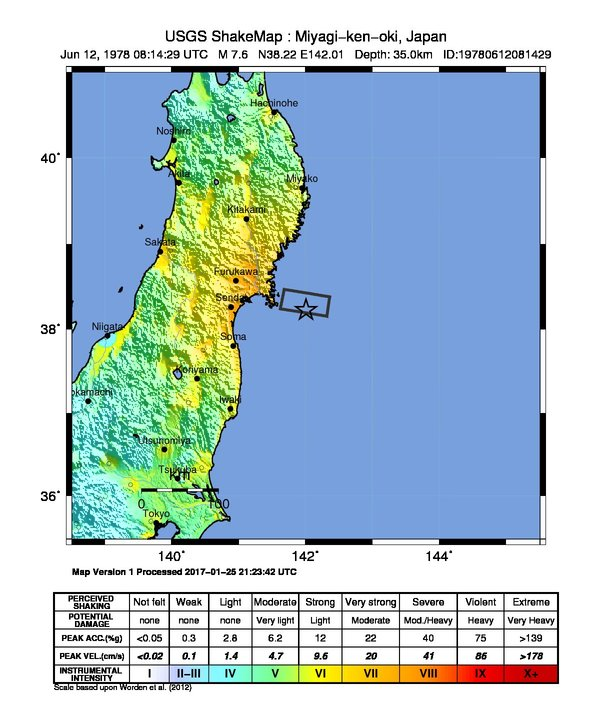 M 7.7 - near the east coast of Honshu, Japan - intensity